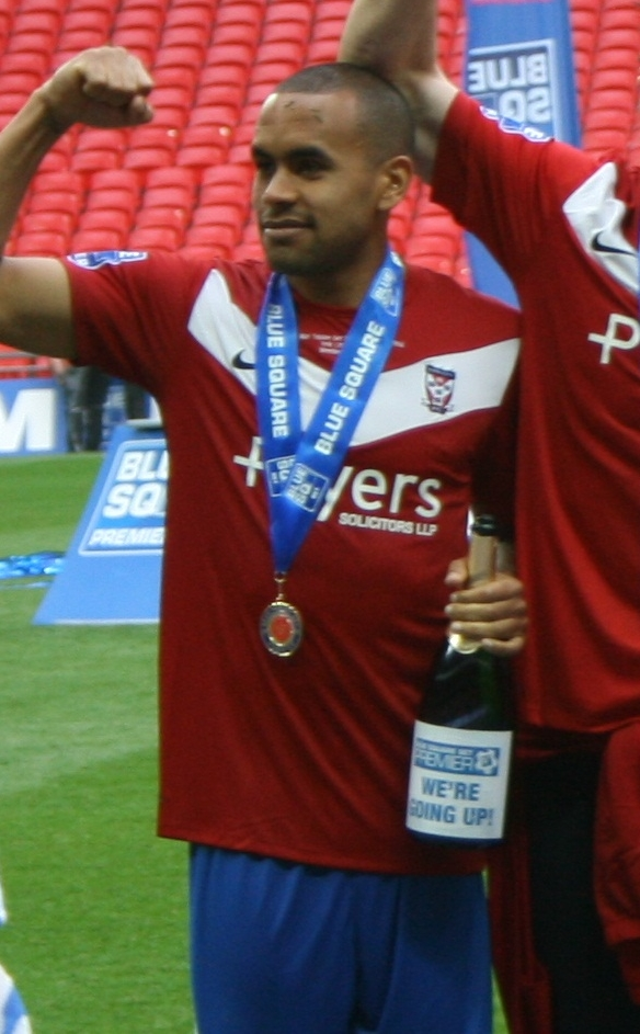 Ashley Chambers after playing for York City against Luton Town at Wembley Stadium, London on 20 May 2012